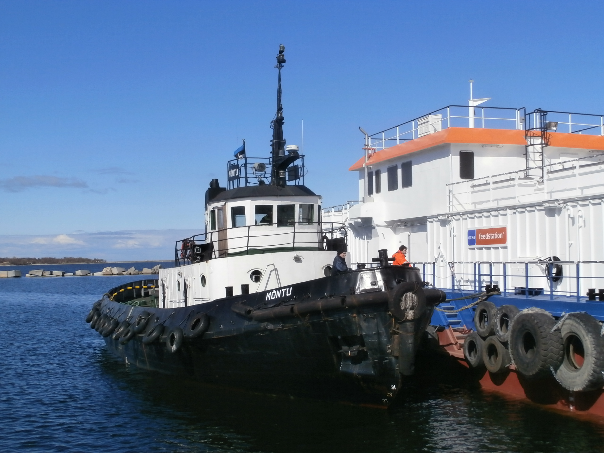 Tugboat Mõntu pushing feed barge ‘ocea’, Port Noblessner Tallinn 15 April 2014